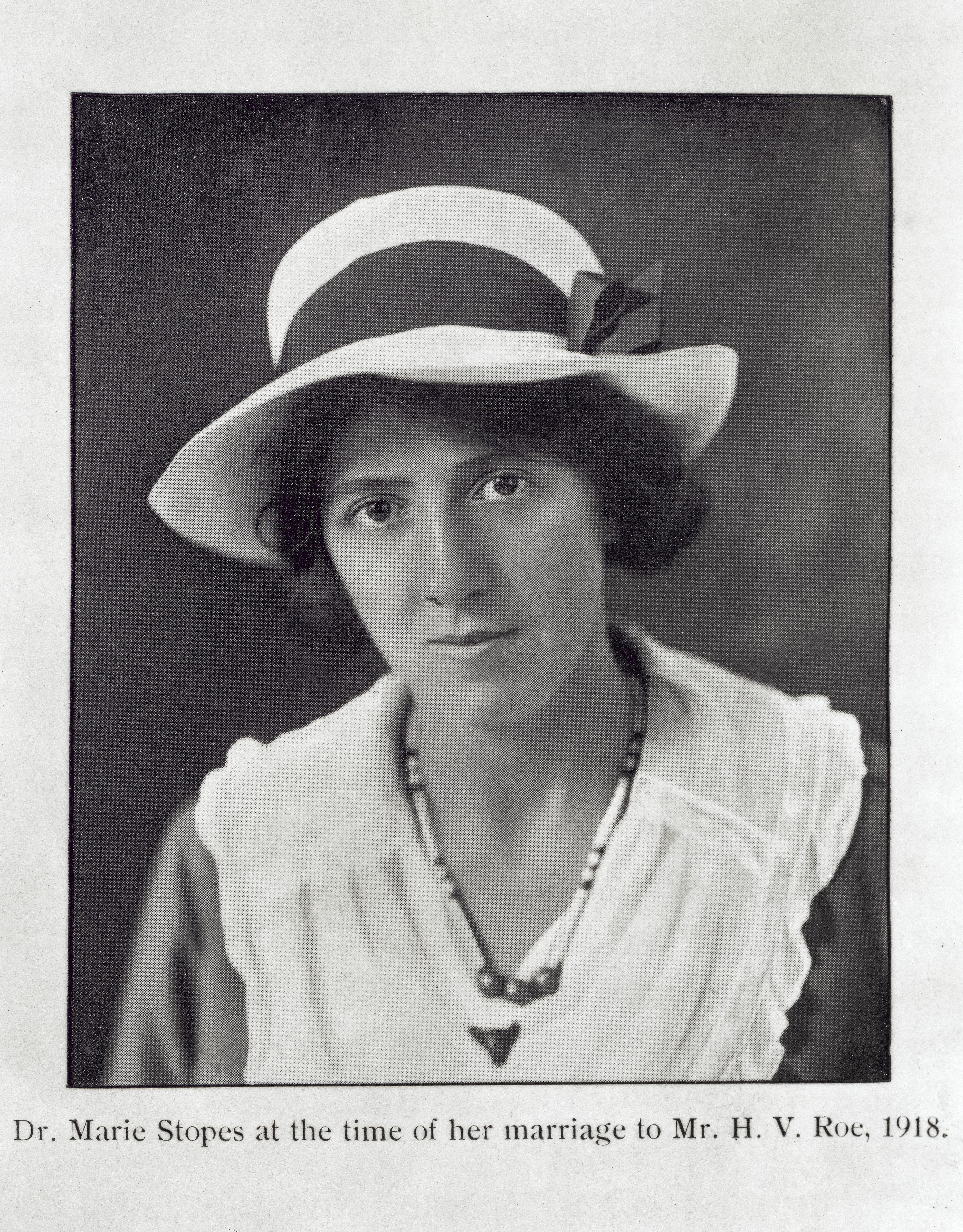 Marie Stopes at the time of the marriage with Mr. H.V. Roe. General Collections Keywords: Marie Carmichael Stopes